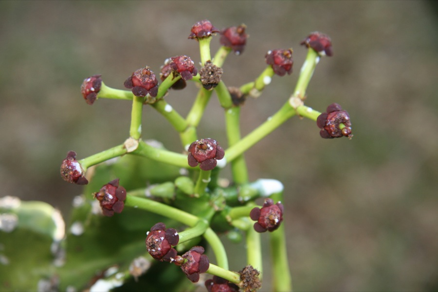 Inflorescence of Euphorbia tanaensis (Morawetz 415, MICH).